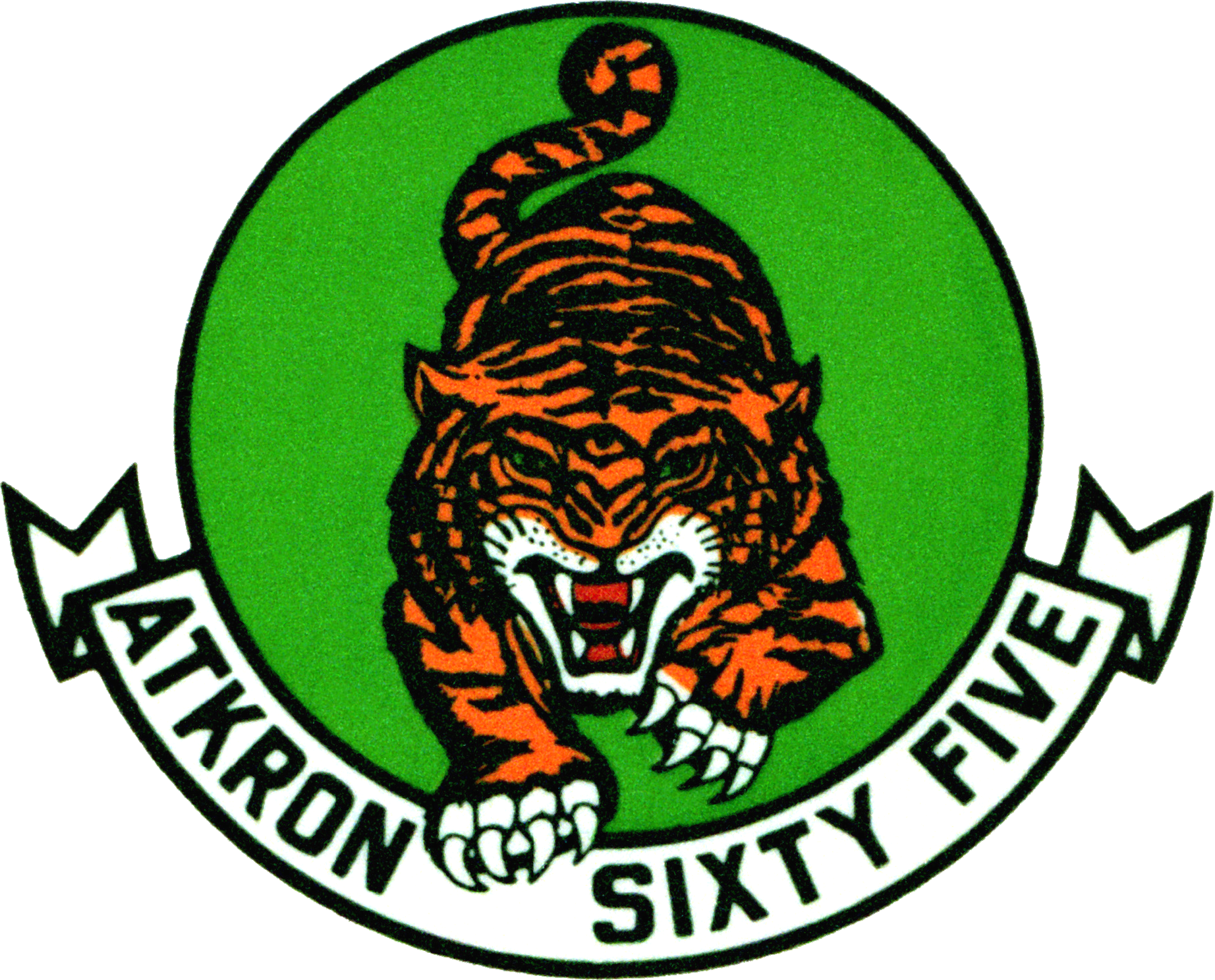 Insignia of the U.S. Navy Attack Squadron 65 (VA-65) "Tigers".